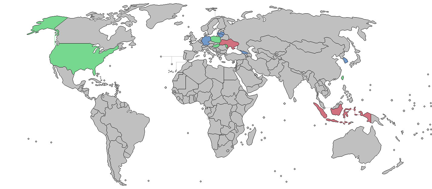 Map of countries where banned now or previously banned communist symbols